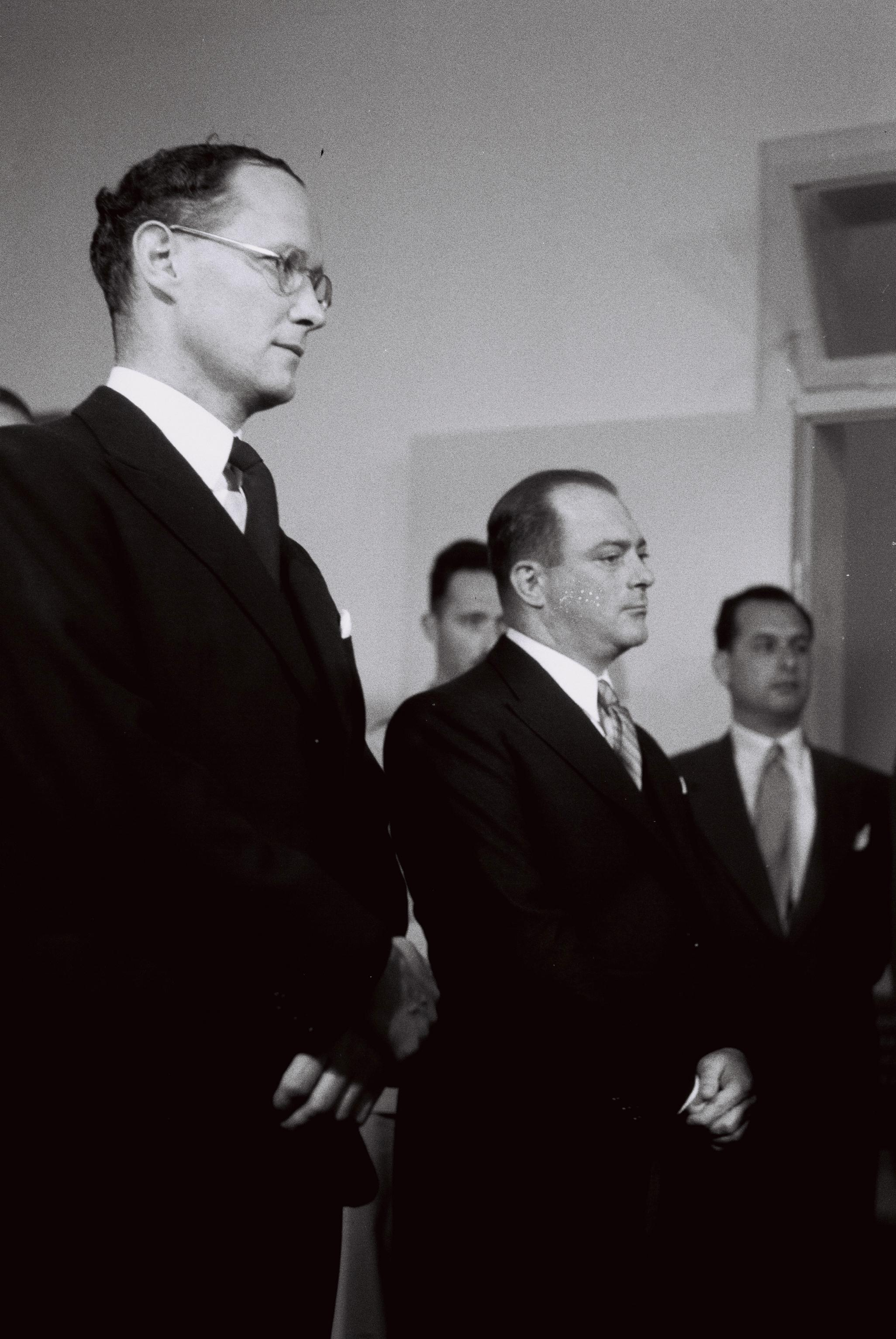 MR. CROWE, FIRST SECRETARY TO THE BRITISH LEGATION, AND MR. GIVON ASSITANT CHIEF OF PROTOCOL, ATTEND THE PRESENTATION OF CREDENTIALS OF BRITISH MIN., HAKIRYA.